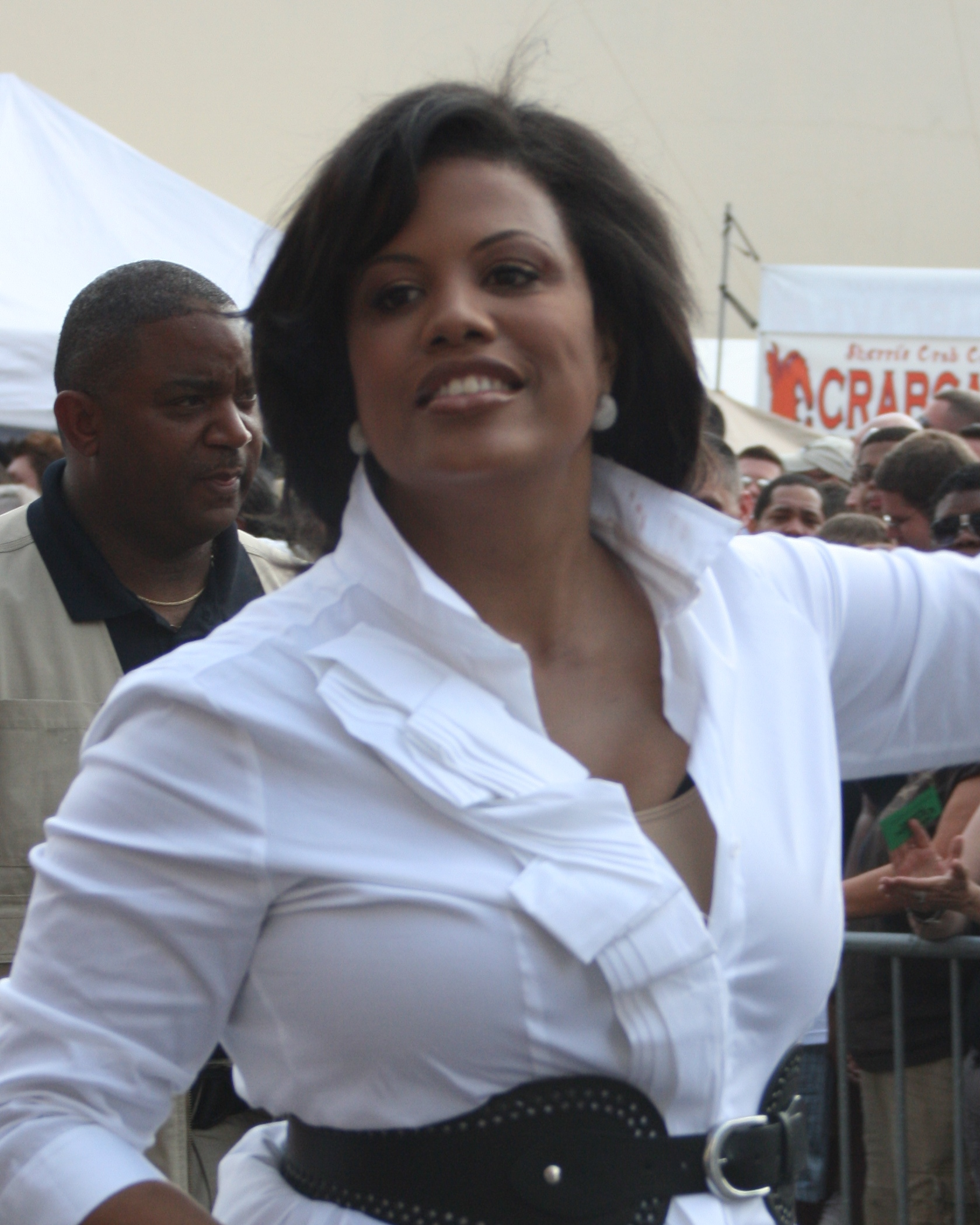 Baltimore, MD Mayor Stephanie Rawlings-Blake at the Baltimore Pride Parade on June 19, 2010 (cropped)